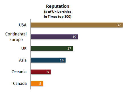 The graph shows the number of universities included in the TIMES Higher Education Top 100 2008, by region.